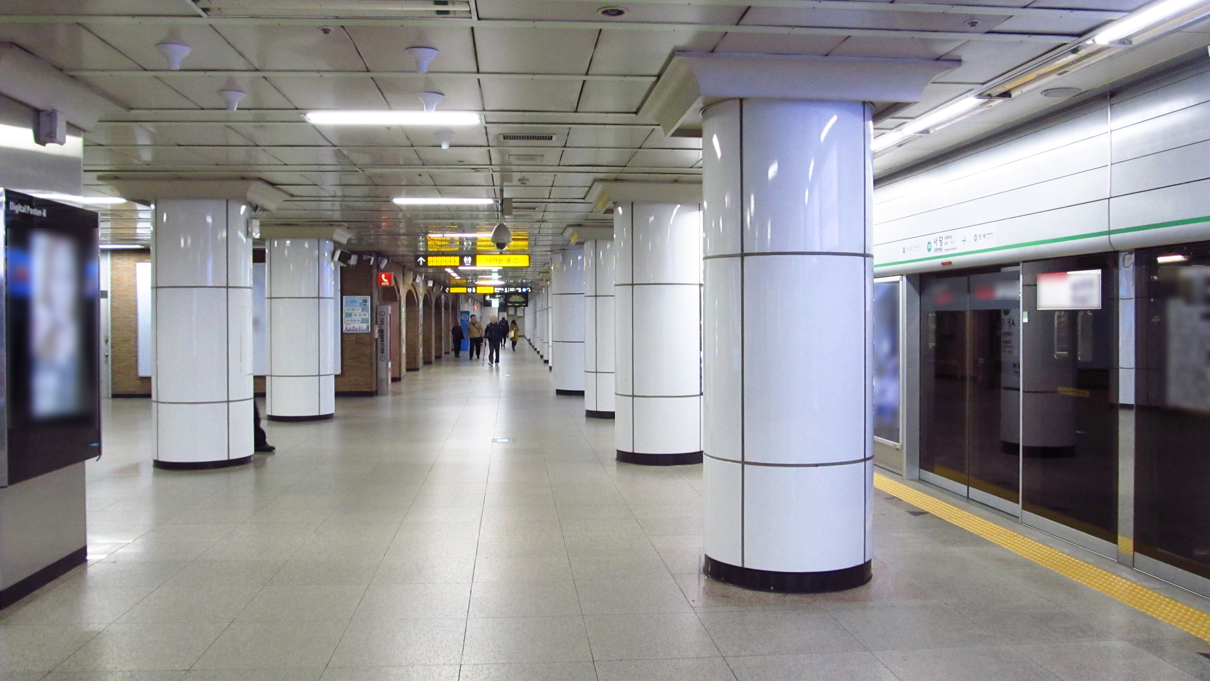 The platform at Sadang Station on Seoul Subway Line 2 in Gwanak-gu, Seoul, Republic of Korea(South Korea)